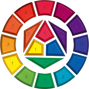 tertiary colors